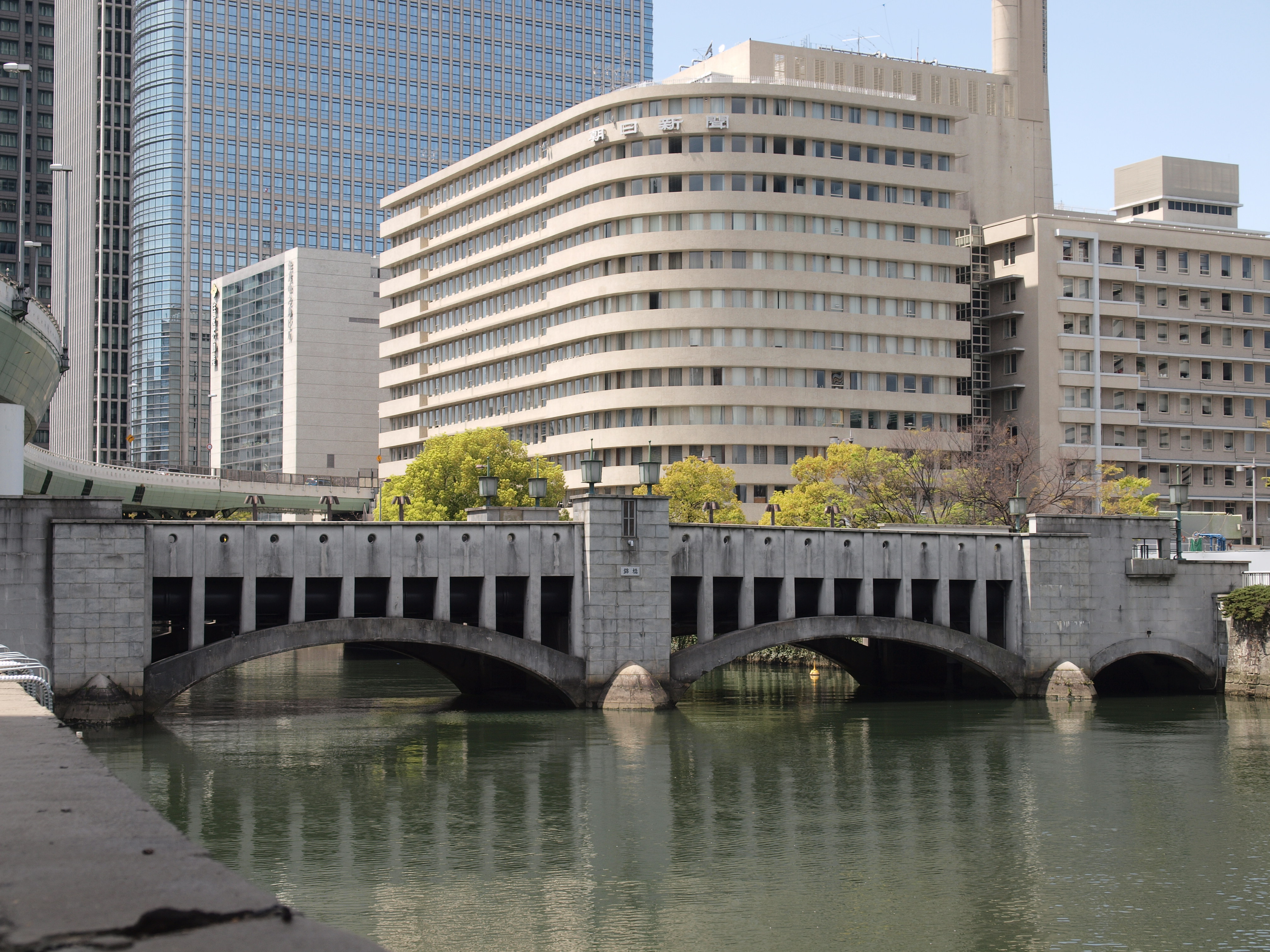 Nishiki-bashi (Bridge), Nishi-ku and Kita-ku, Osaka